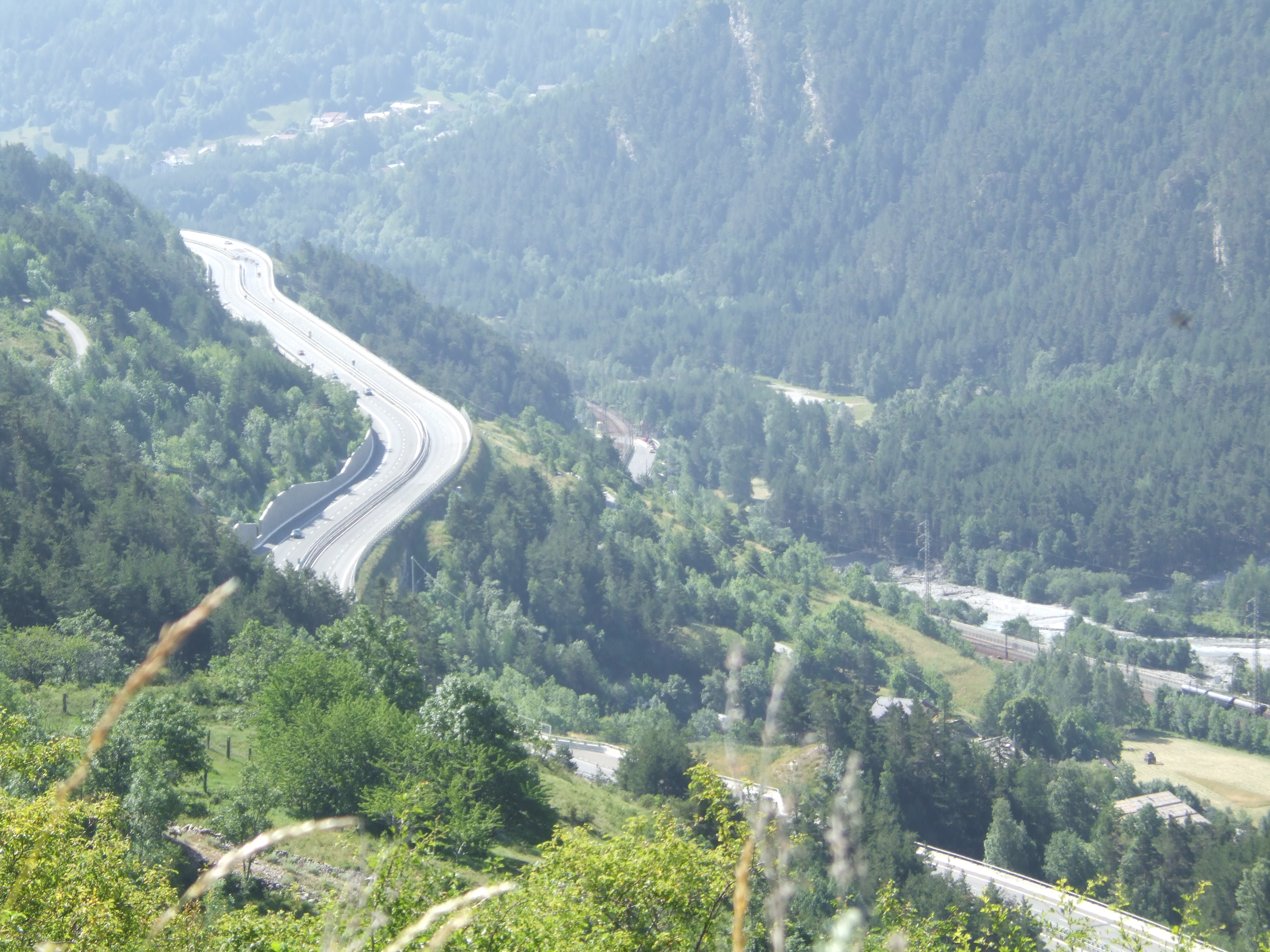 Italian highway A32 near Beaulard (Oulx)